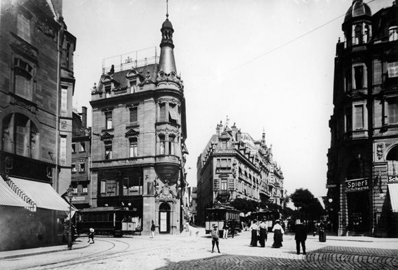 Heilbronn Kaiserstraße und Kiliansplatz um 1900.jpg